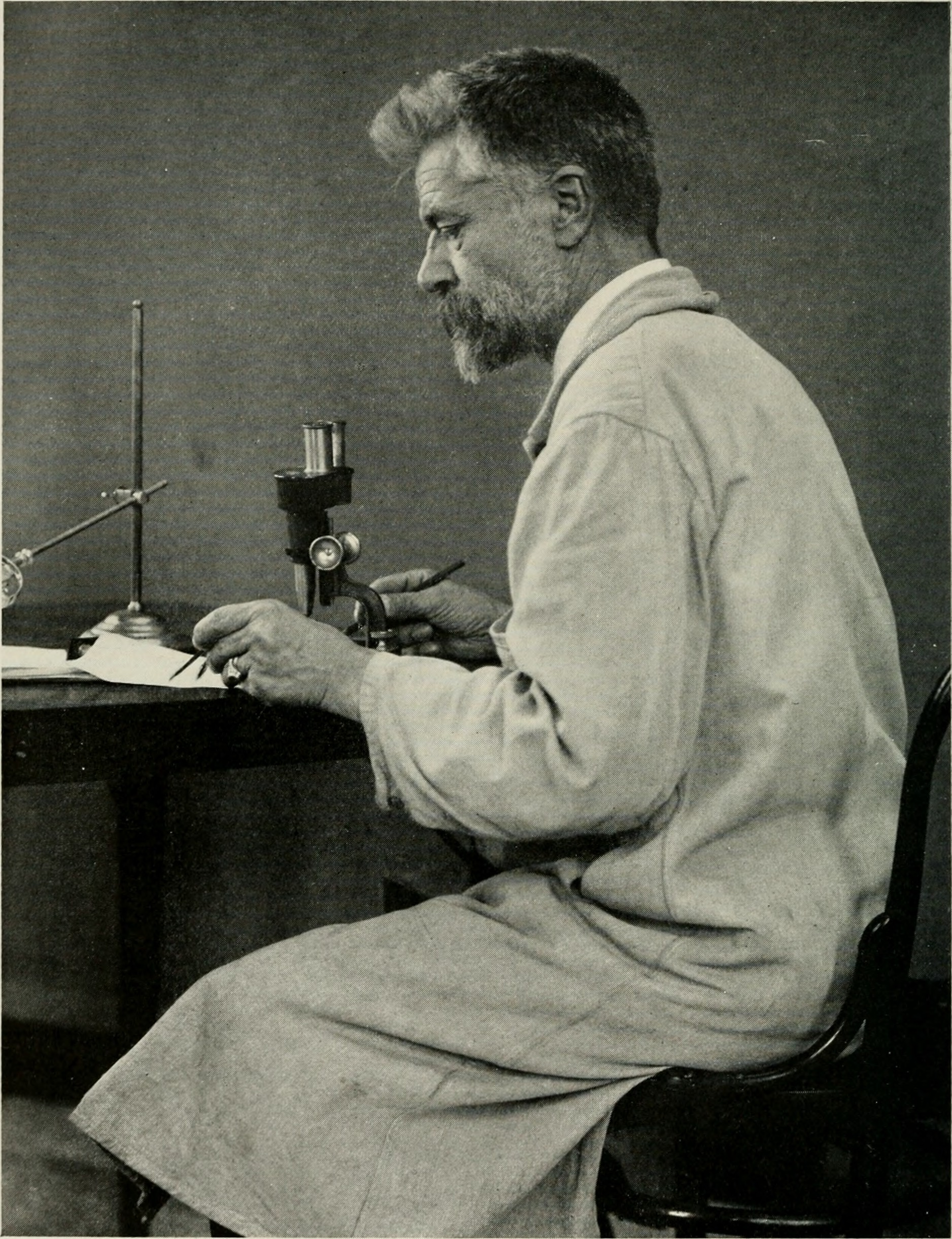 Title: The American Museum journal Year: c1900-(1918) (c190s) Authors: American Museum of Natural History Subjects: Natural history Publisher: New York : American Museum of Natural History Text Appearing Before Image: ' Text Appearing After Image: Phoio by Mr. Julius Kirschner IGNAZ MATAUSCH His recent dealh is an almost irrejiarable loss to the Museum's technical constructive work. Mr. Matausch's work of many years h;is been done under the suiiervision of the department of invertebrate zoology, which will tell in the next issue of the Journal the story of his connection with the department and of his many masterpieces of work in wax modeling for the Darwin hall. (This photograph was taken for the Journal but a fortnight before his death) 56